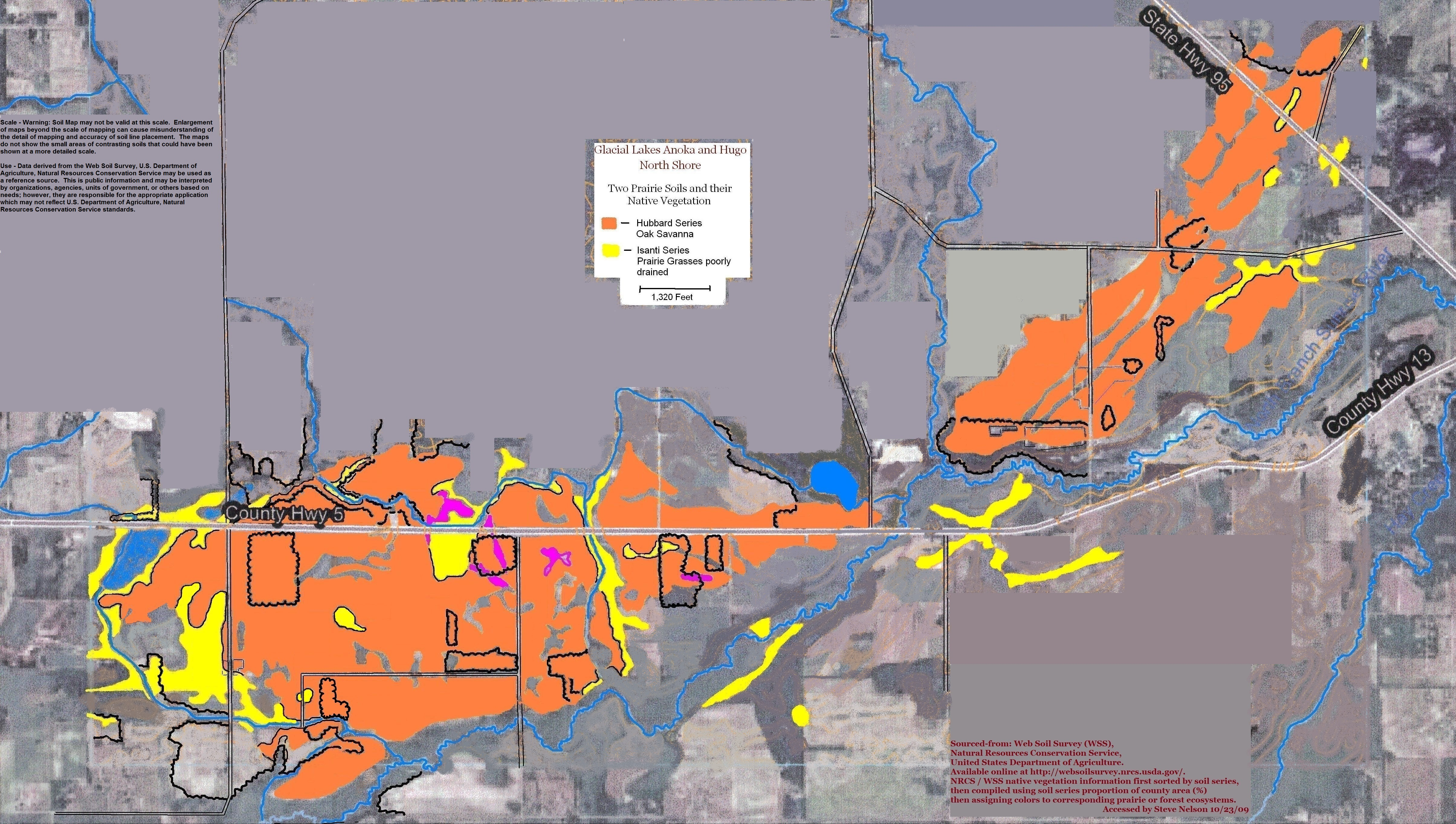 This 1,000 acre area is the largest oak savanna soil area in Isanti County Minnesota. Formed from the shores of glacial lakes Anoka and Hugo 10-12,000 years ago. The western portion is shaped like an arrowhead; the eastern portion is shaped like a foot and the two almost touch just east of County road 48 north of County road 5.